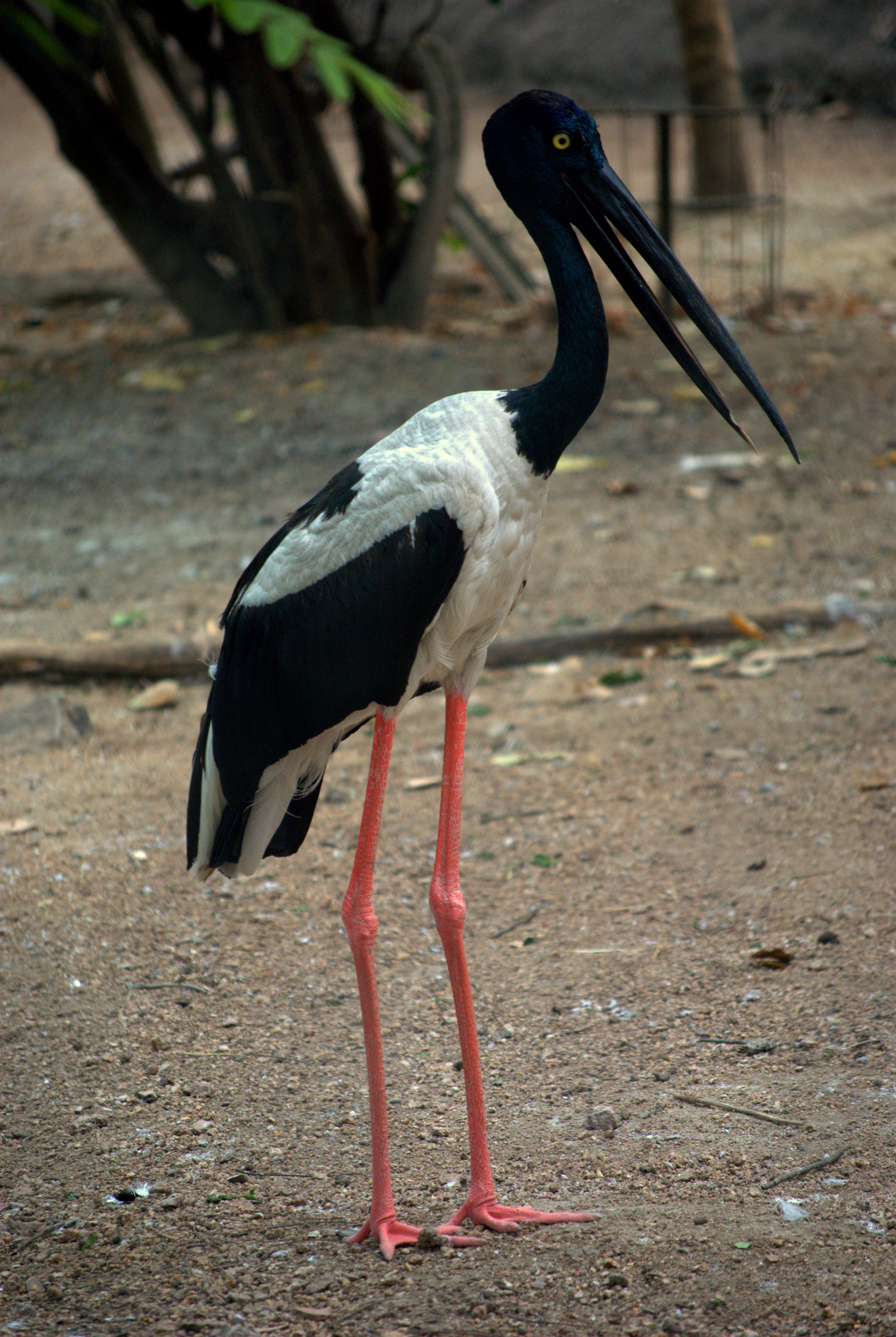 A female Black-necked Stork in India.